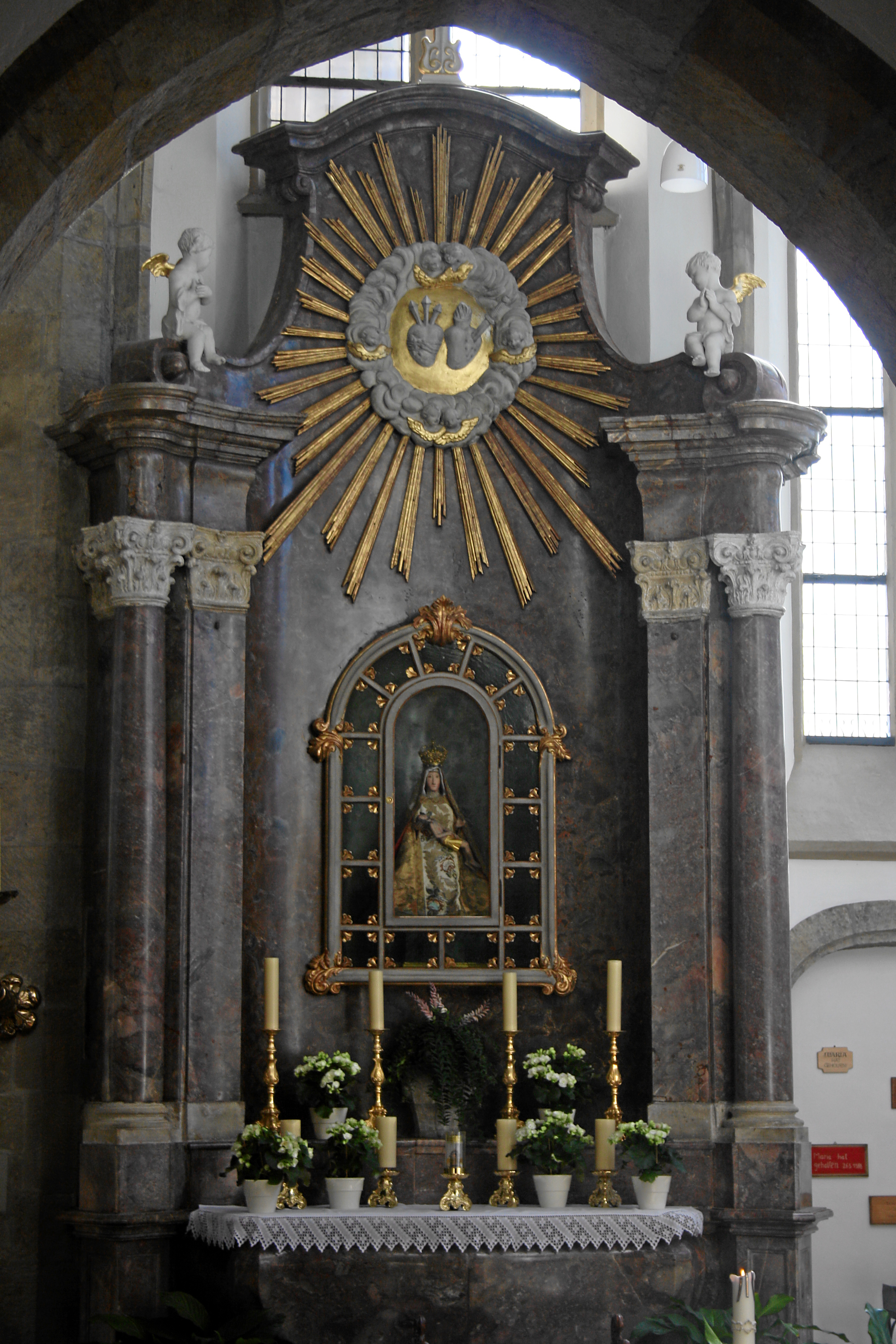 Hennef-Bödingen, Germany. Roman-catholic pilgrimage church Mater dolorosa, altar.